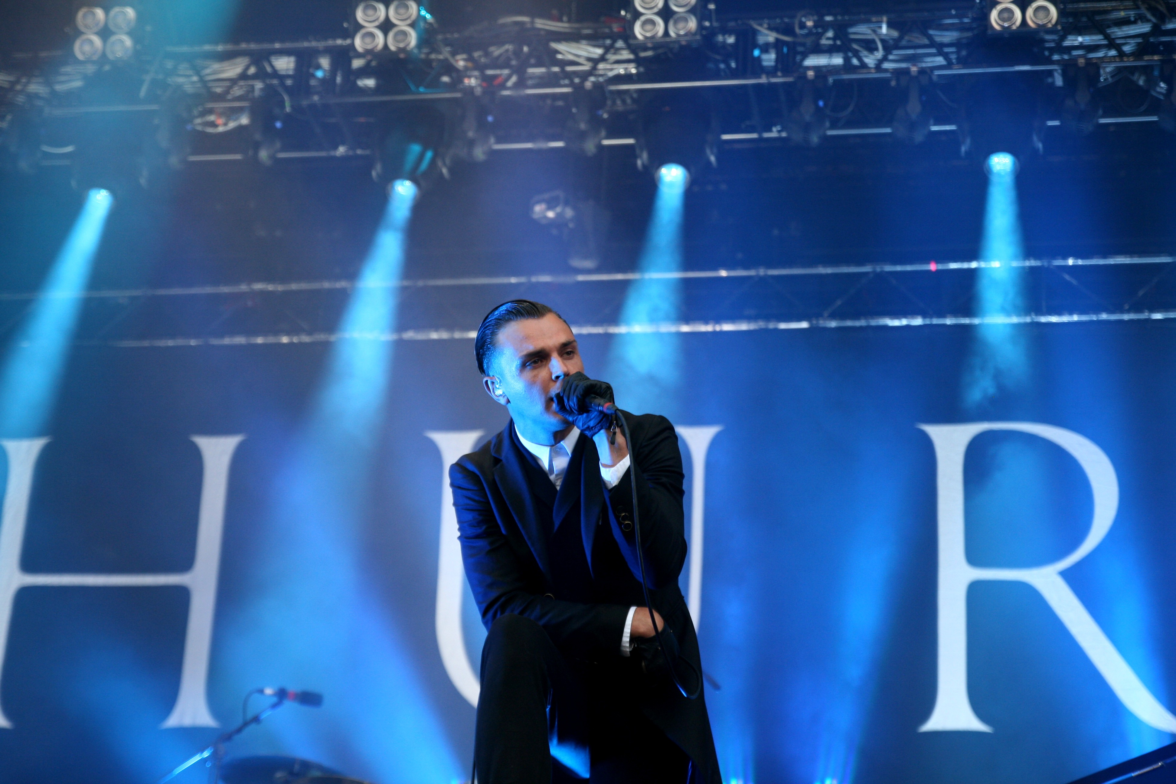 Theo Hutchcraft, singer of Hurts, stands on the Alterna Stage of Rock im Park-Festival 2013. Festivalsommer This photo was created with the support of donations to Wikimedia Deutschland in the context of the CPB project "Festival Summer".